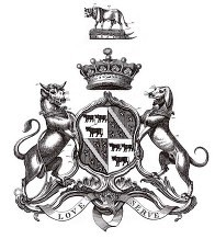 Full coat of arms or armorial bearings of the Earl of Shaftesbury, created in 1672 for Anthony Ashley-Cooper, 1st Earl of Shaftesbury.